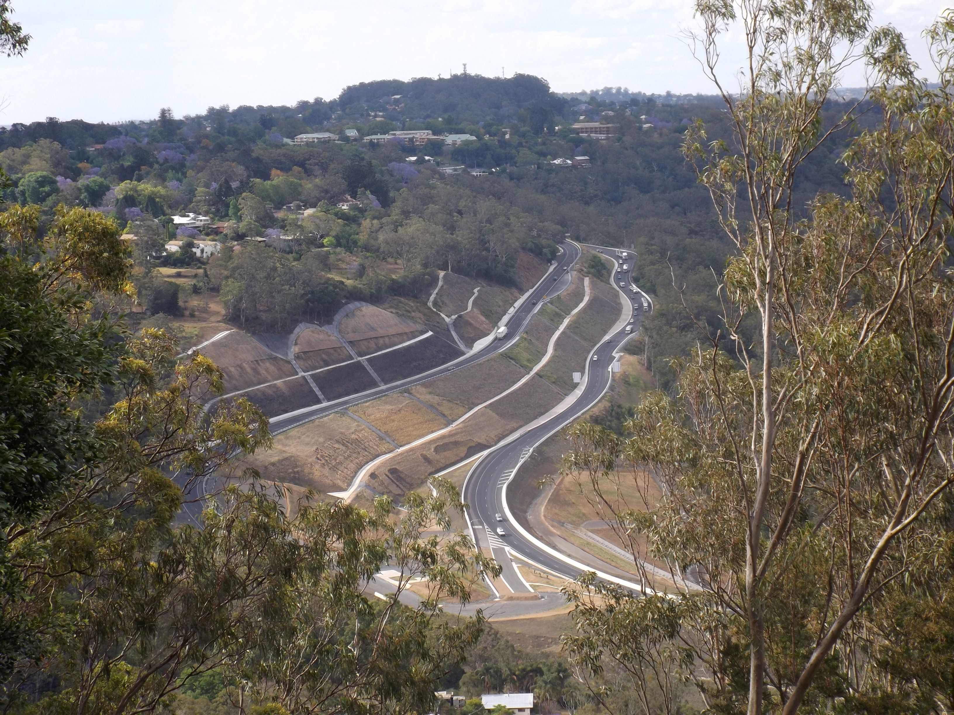 Warrego Highway at Redwood from Picnic Point at Rangeville, Toowoomba, Queensland, Australia.